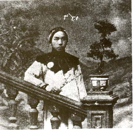 Lai Man-Wai (d. 1953) in the 1913 Chinese film Zhuangzi Tests His Wife. Lai Man-Wai also directed the film and is the only known author of the film for copyright purposes. The film is public domain in the United States (because it is published before 1923), and public domain in China and all other countries with a rule of pma (post-mortem author) of 50 years.